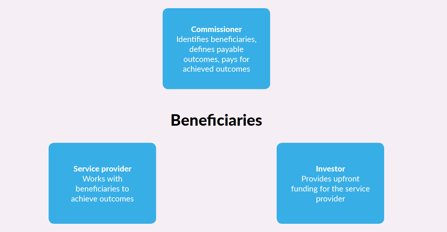 Figure representing the structure of a SIB